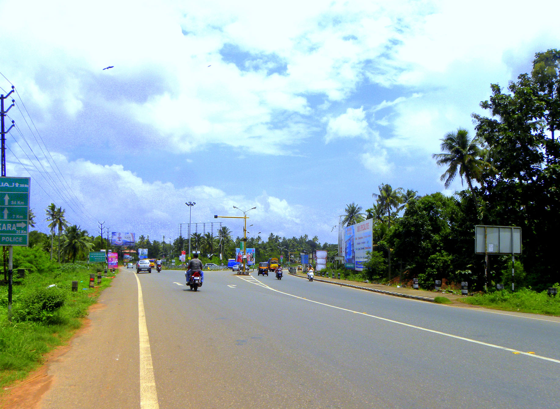 Kollam Bypass at Mevaram Junction, the starting point towards the south